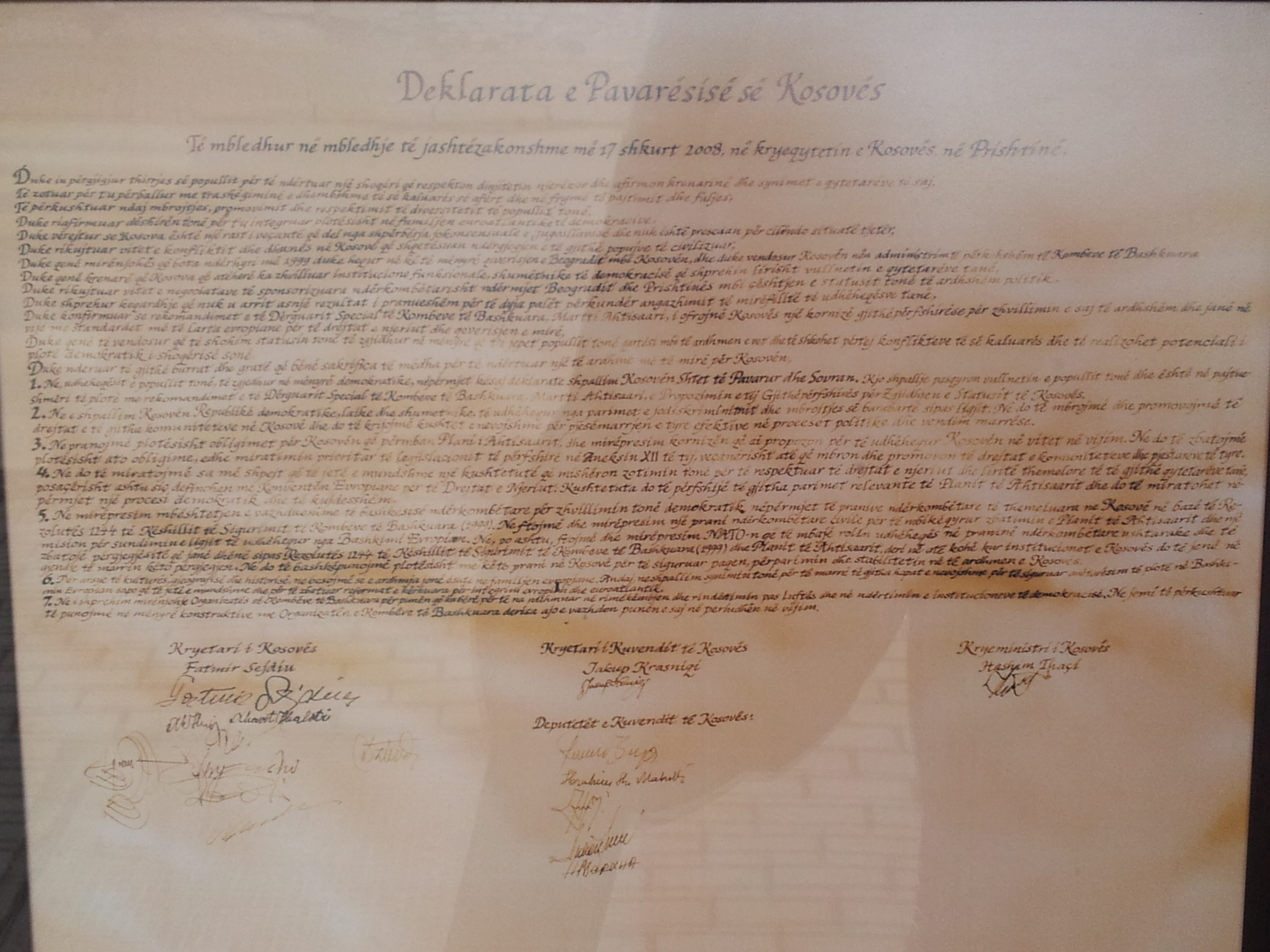 Declaration of Independence of Kosovo